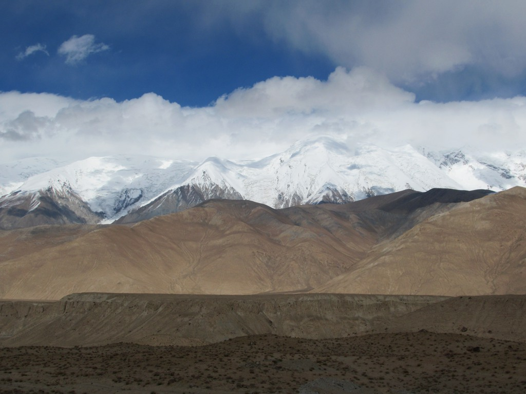 Kongur Tiube (7,530 meters), one of the highest mountains in the Pamir Range, is visible from the Karakoram Highway between Kashgar and Tashkurgan, Xinjiang, China.